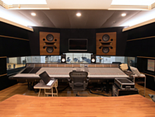 Studio A renovated in 1987